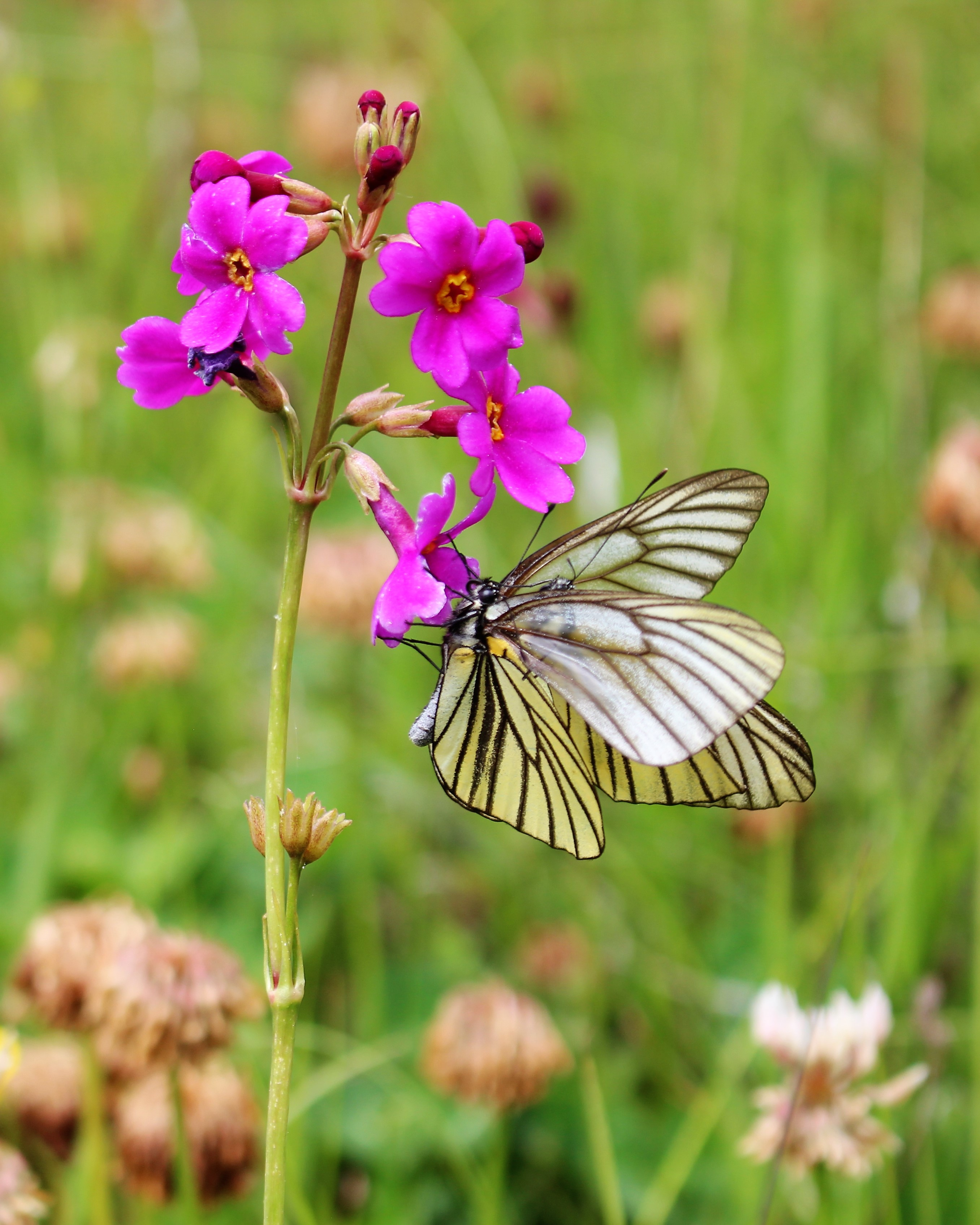 Butterfly pollinating a flower